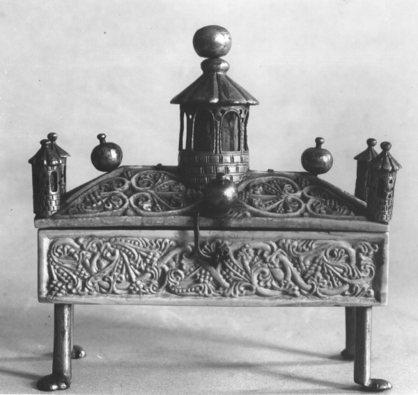 Photograph